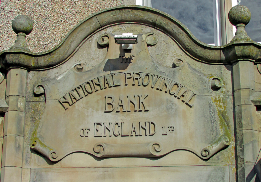 National Provincial Bank carved headstone at Holyhead, Anglesey, in 2013